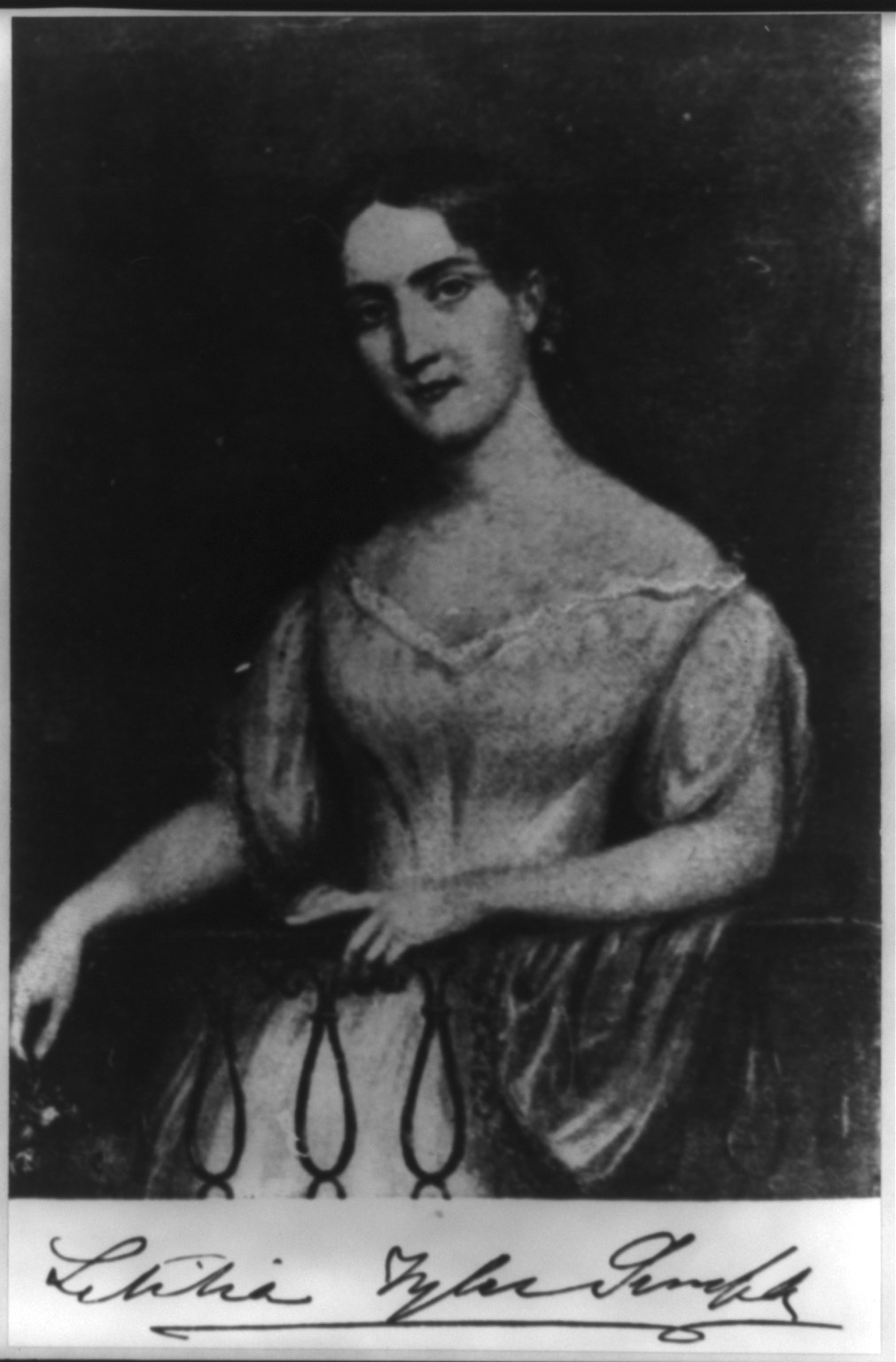 Title: Letitia Tyler Semple, daughter of President John Tyler Abstract/medium: 1 photograph : black and white, gelatin silver print ; 21 x 26 cm. (8 x 10 in. format)